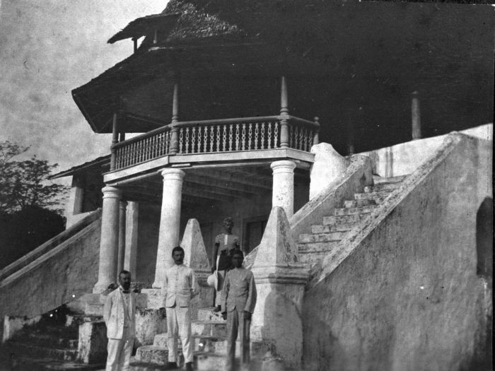 Vicar Jansen and civil servant ('controleur') Riem with the eldest son of the sultan in front of the palace of the sultan of Ternate